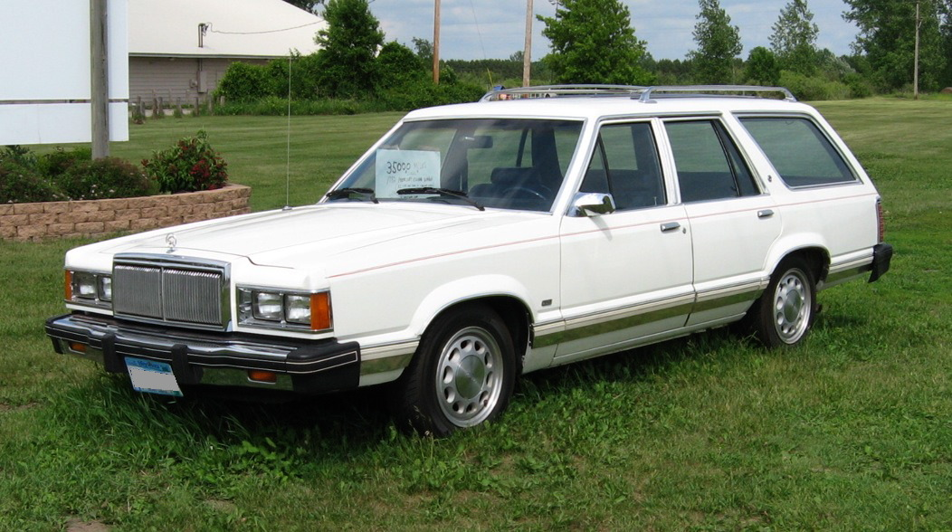 1982 Mercury Cougar GS station wagon photographed in Minnesota. The wheels on the car are not original to it, they are from either a 5.0 Mustang or a Thunderbird Turbo Coupe of the mid-1980s.File:1982 Mercury Cougar GS wagon rear.jpg is another view of this car.